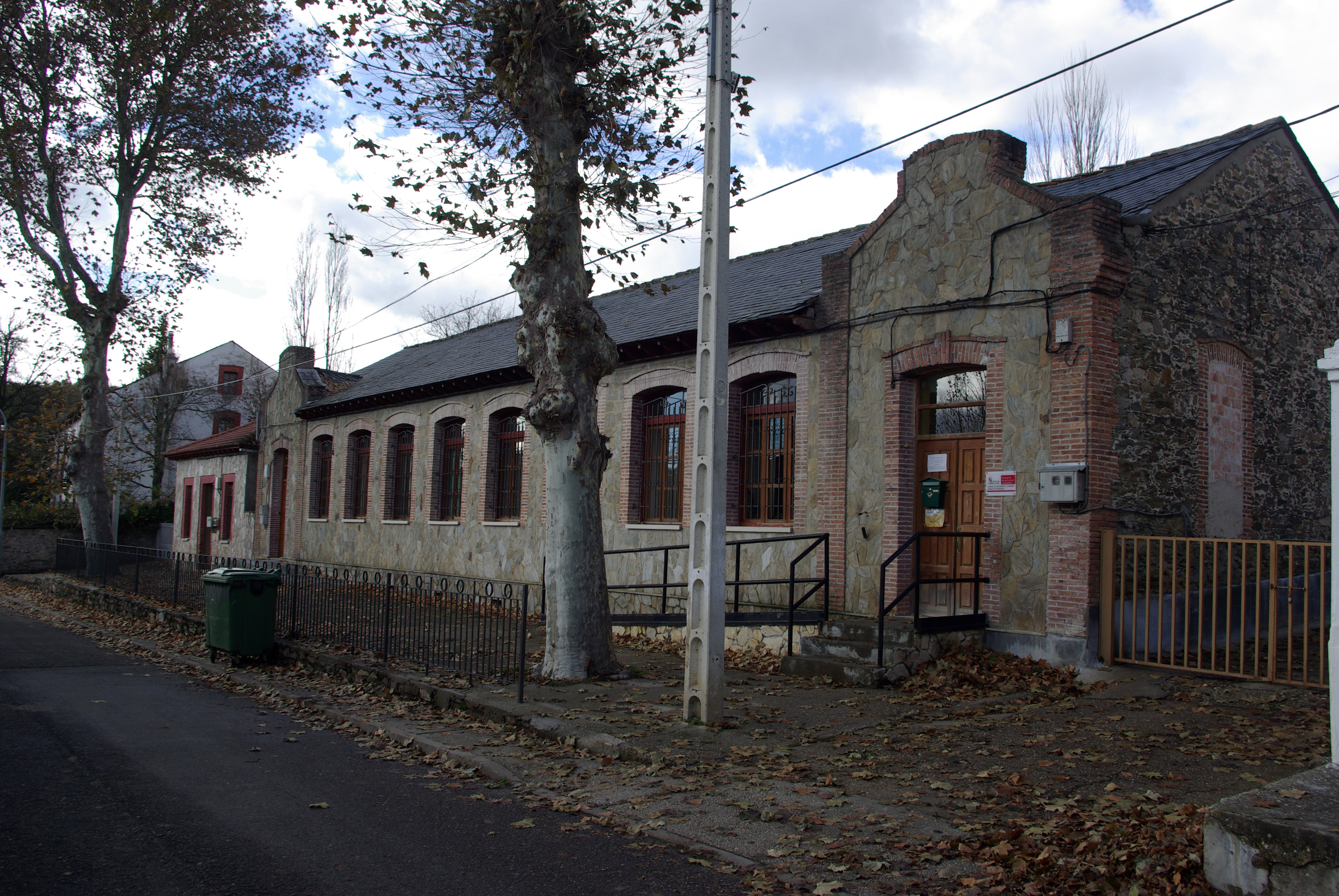 Veterinary and agricultural development units of the Regional Goverment in Riello (León, Spain).